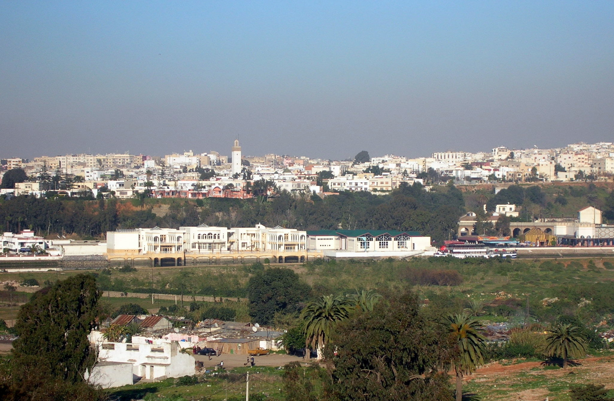 City of Salé, Morocco